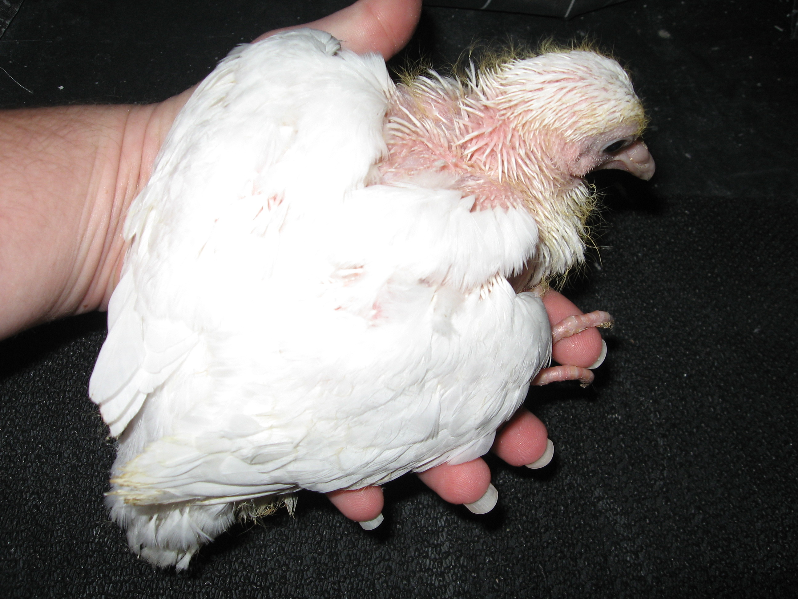 Bird 74 at almost 2 weeks old.